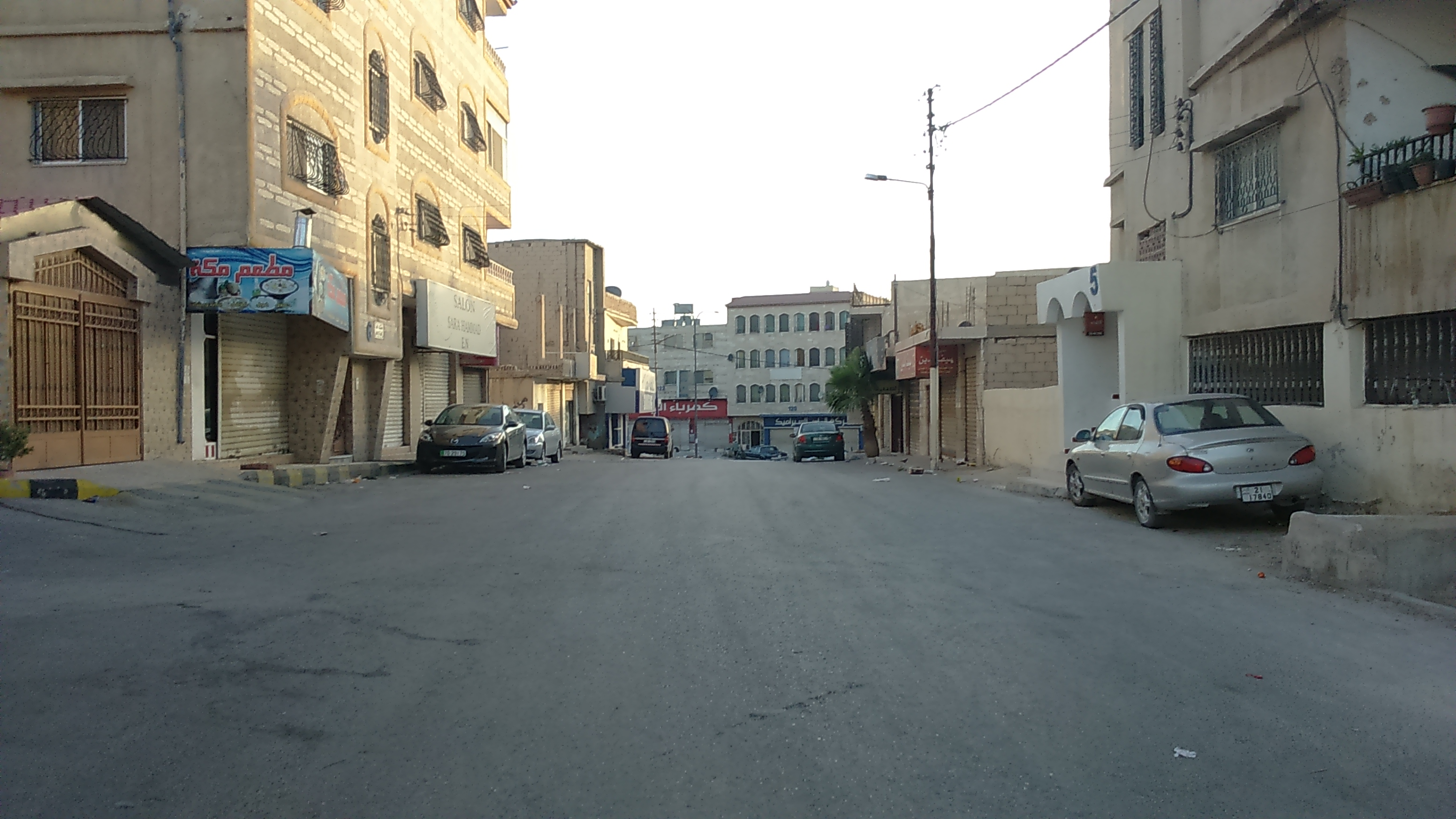 Al Jabal al shamale, Russeifa, Jordan